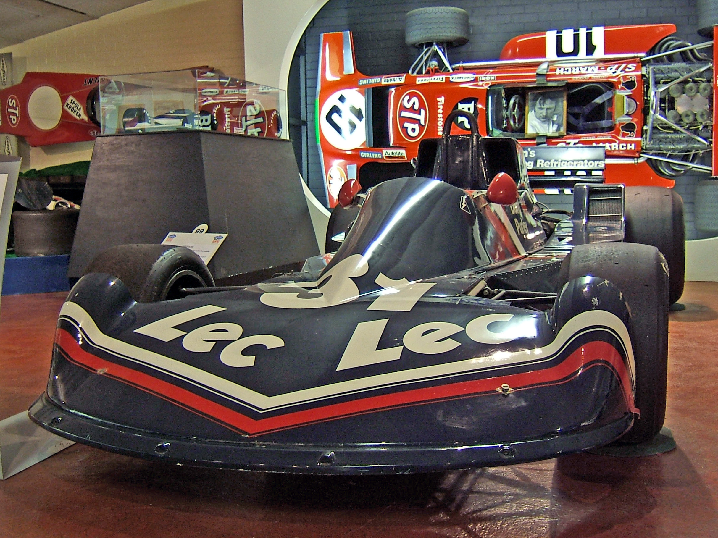 The surviving LEC CRP1 Formula One car, with a March 701 car mounted on the wall behind. In the Donington Grand Prix Collection museum, Leicestershire, UK.